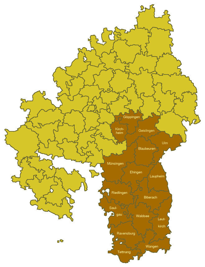 Map of the Donaukreis (one of four districts of Württemberg) with its administrative subdivisions (Oberämter) as of 1835.